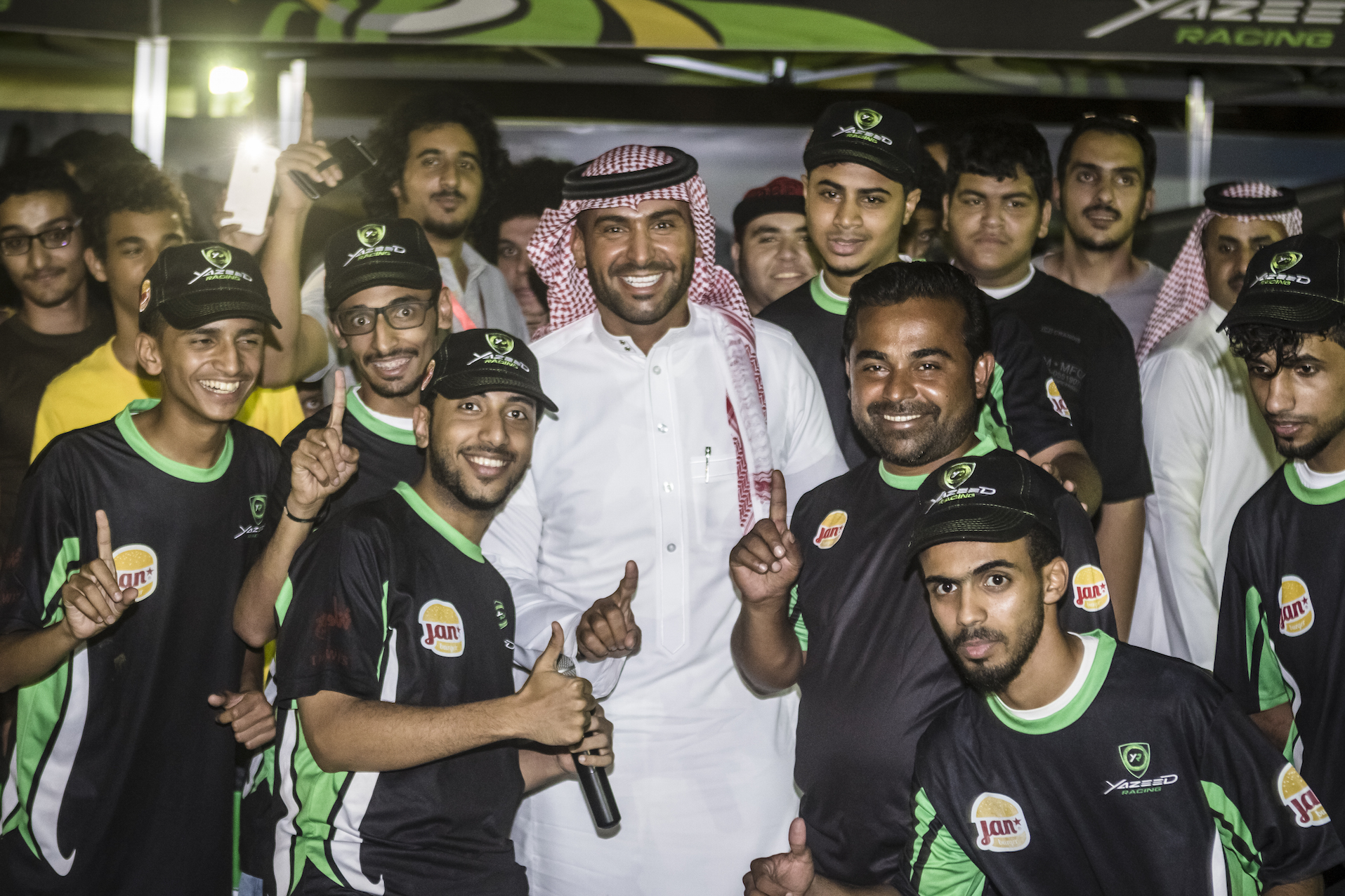 فعاليات فريق يزيد للسباقات - رالي جدة 2015